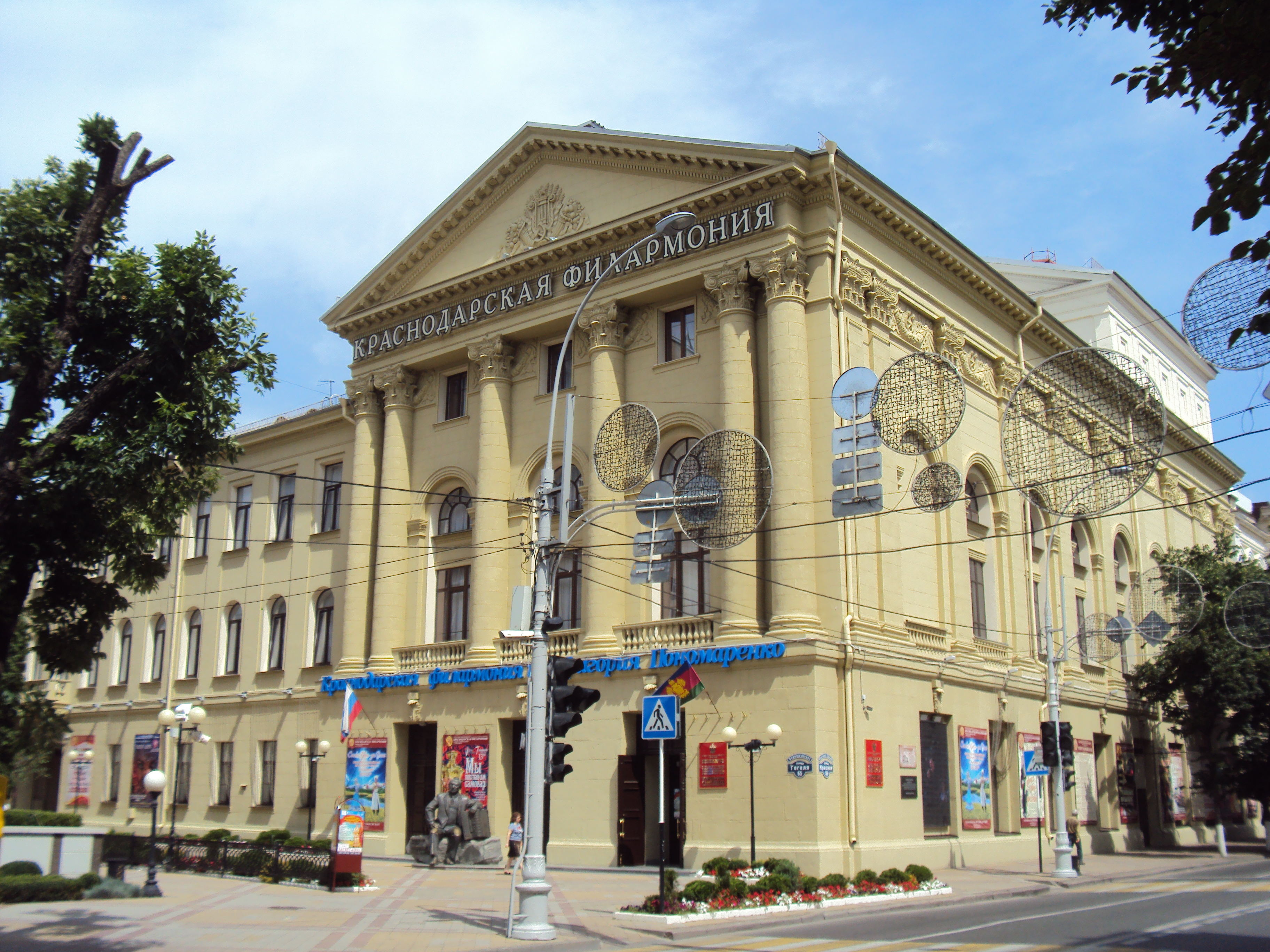 winter theatre